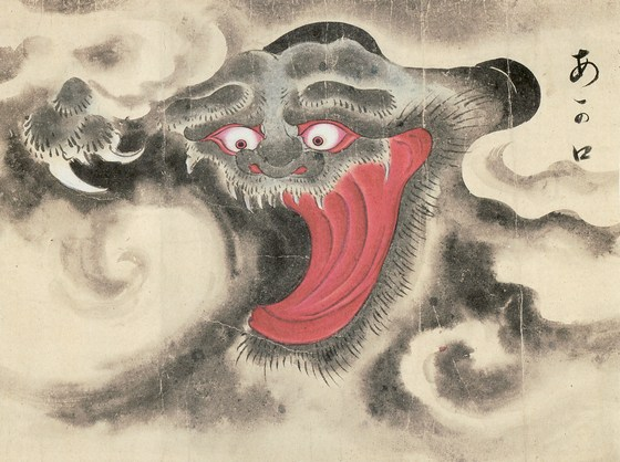 Akakuchi (Akashita) from Hyakkai-Zukan